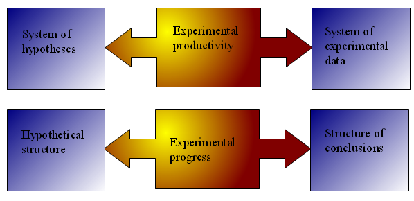 Based on information from Tapu, CS - Hypostatic personality: psychopathology of doing and being made, Premier, 2001.